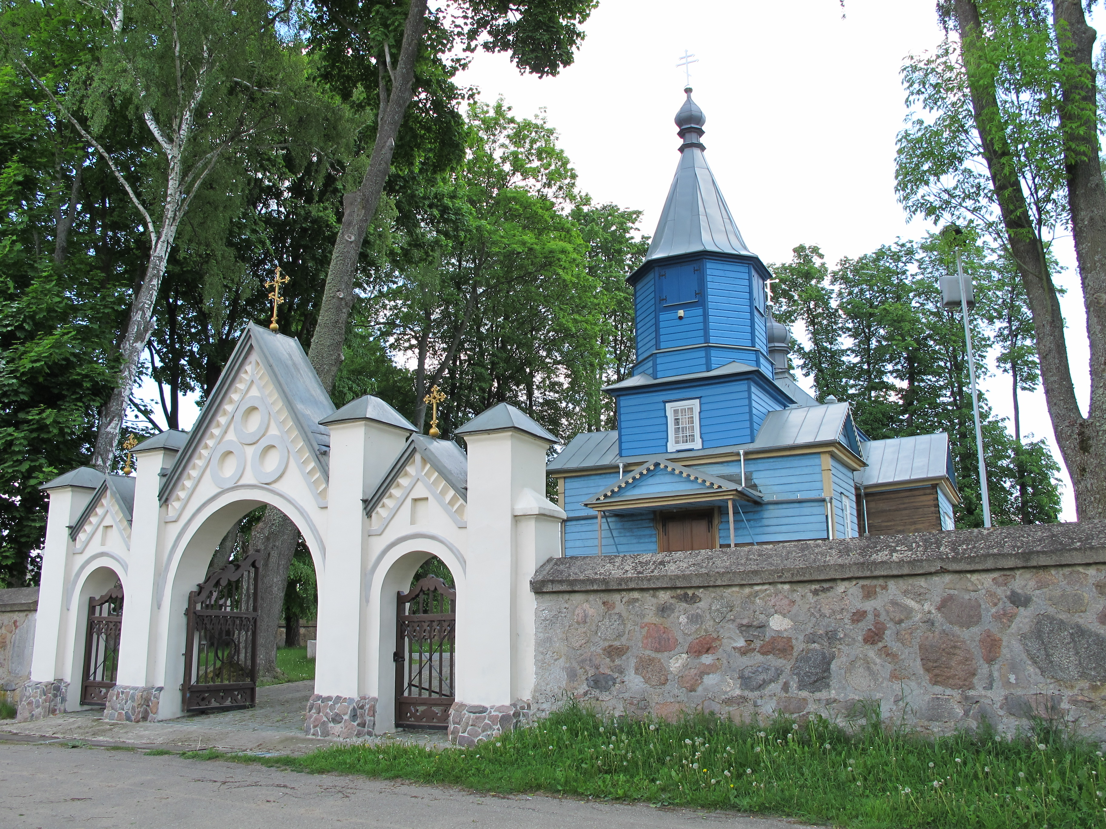 Wooden orthodox church of the Feast of the Cross near Kożany village, gmina Juchnowiec Kościelny, podlaskie, Poland